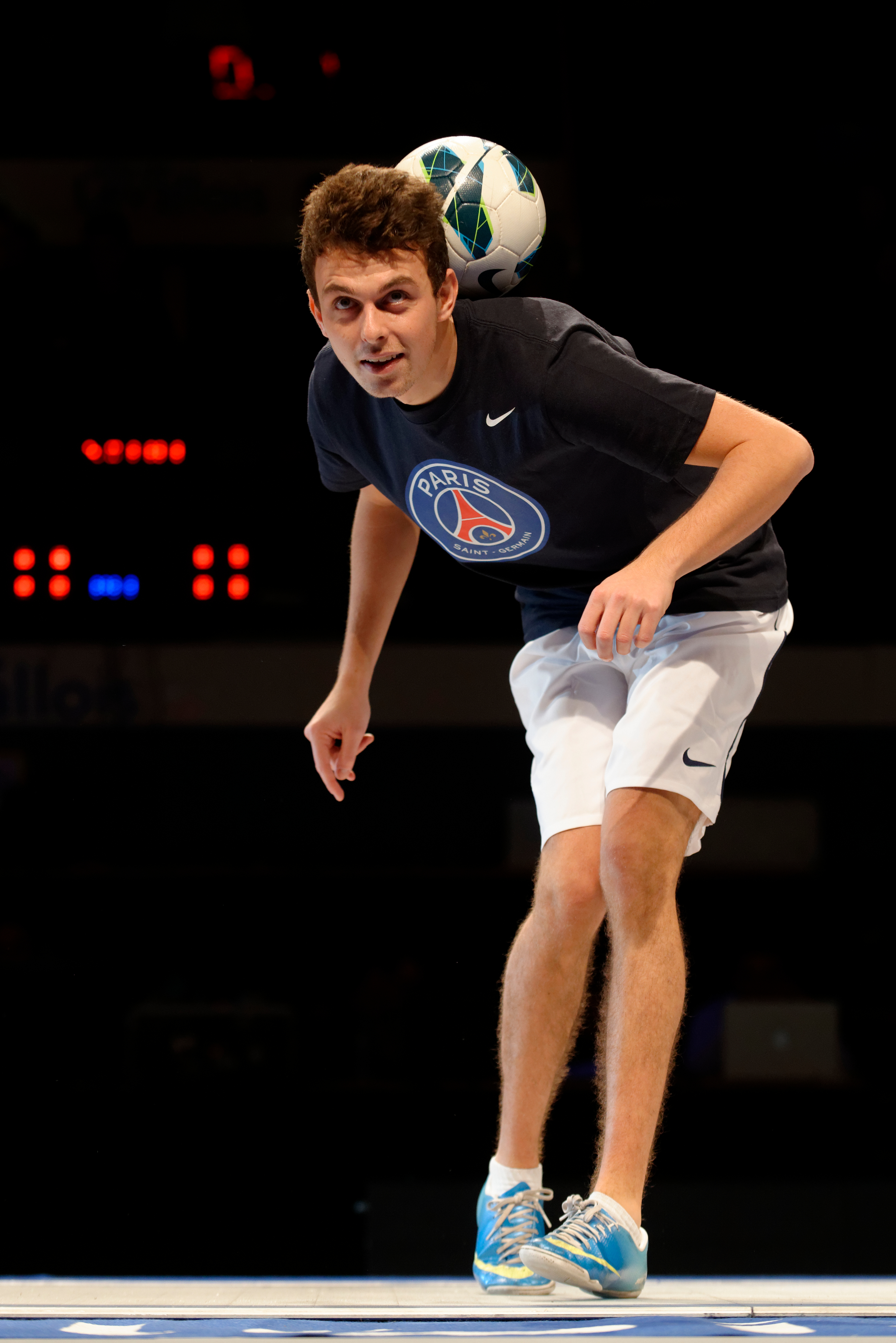 Football freestyle demonstration at the 2013 Masters à l'Epée.